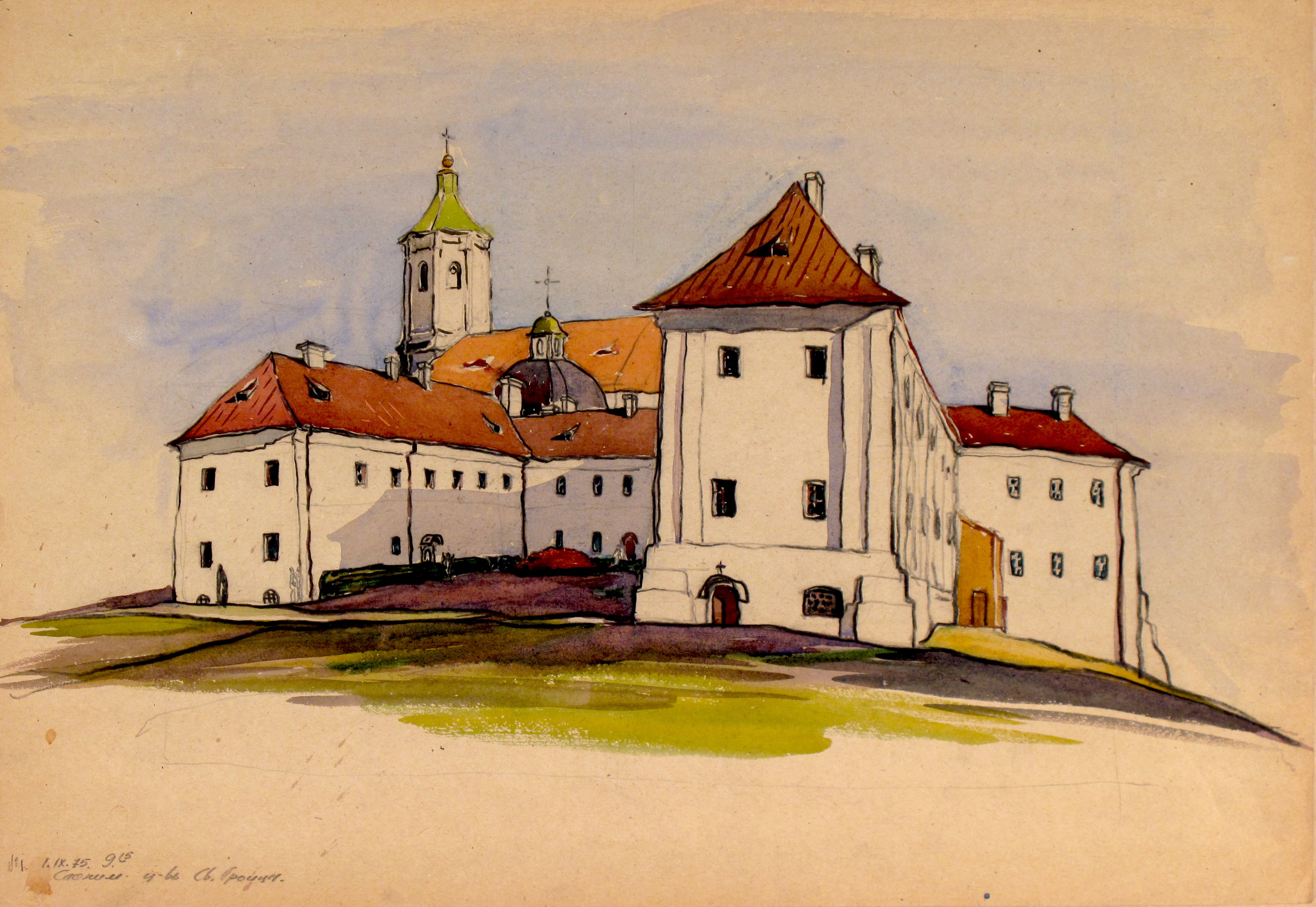 Holy Trinity Orthodox church in Slonim. Drawings by belarusian artist Valery Sliunchanka.